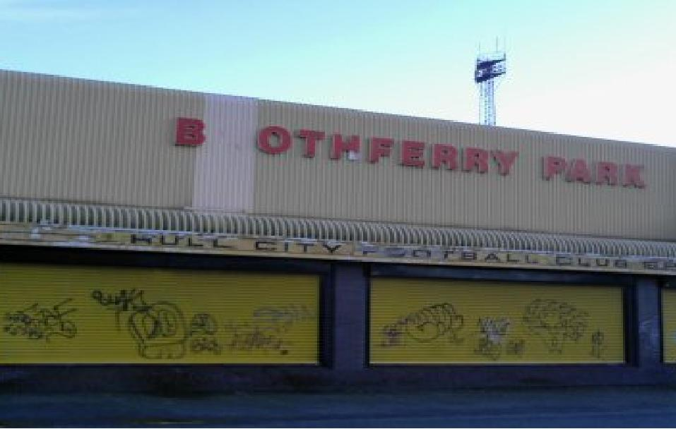 Boothferry Park, Boothferry Road, Hull, East Riding of Yorkshire, England, from the front.